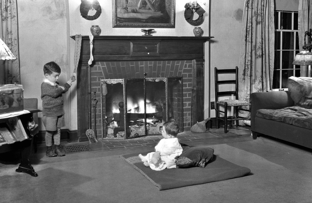 Christmas Eve 1928. "Christmas Eve in the living room of our house north of Worthington, Ohio. It was my brother's first Christmas. Dad took our early Christmas pictures with his 5x7 Premo using flash powder. After every shot windows had to be opened to clear the smoke."